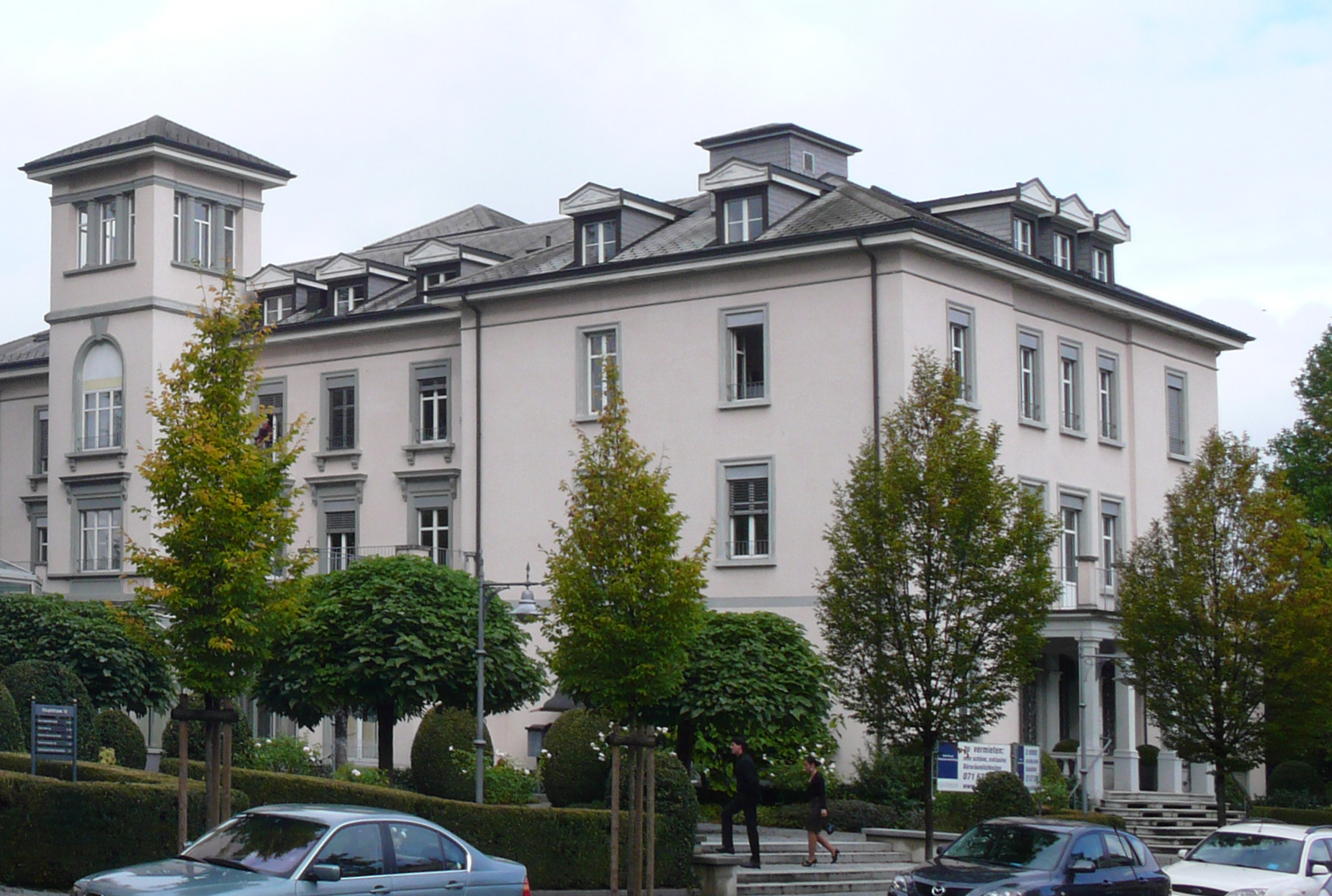 Former Sanatorium "Bellevue" in Kreuzlingen. Villa "Bellevue", built in 1842/3, modified in 1901.